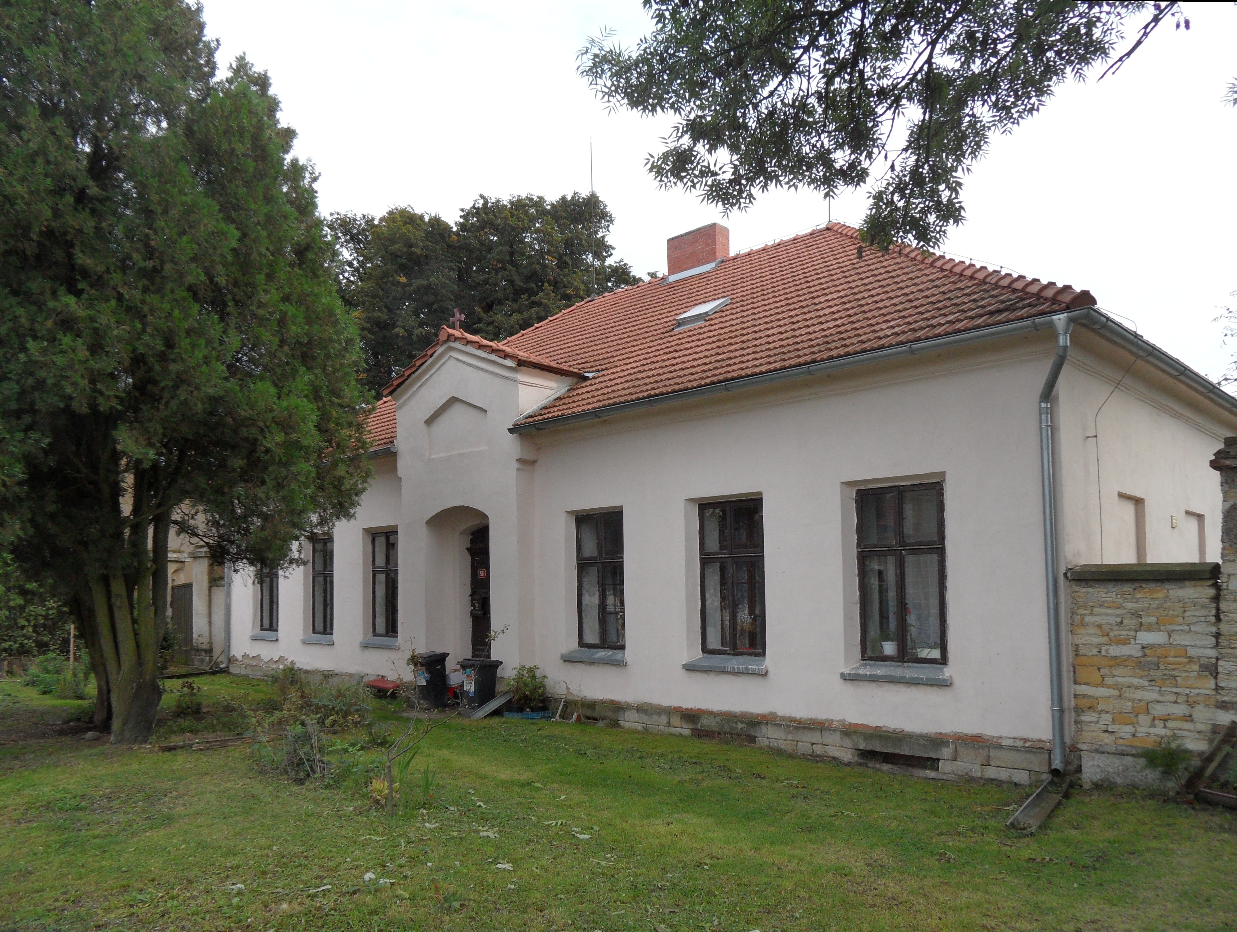 Bošín (Křinec) A. Parsonage (No. 50), Nymburk District, the Czech Republic.